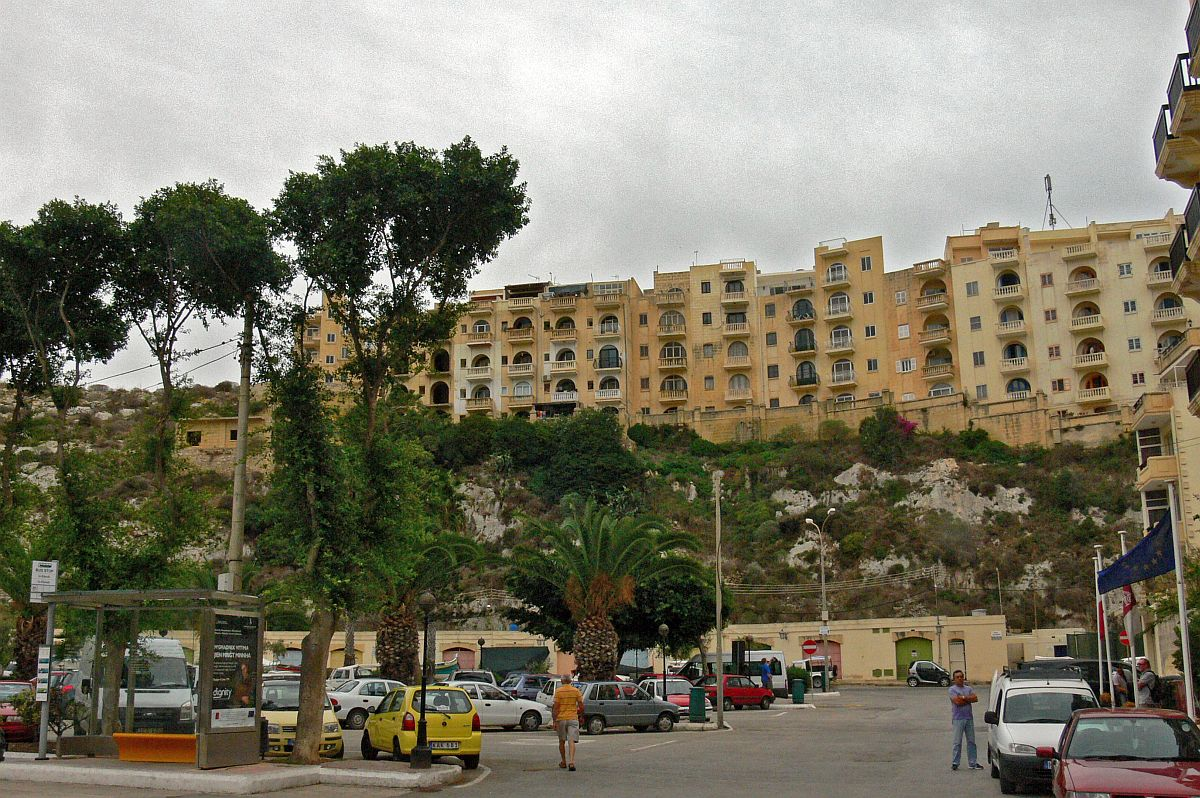 Xlendi, Gozo, Malta